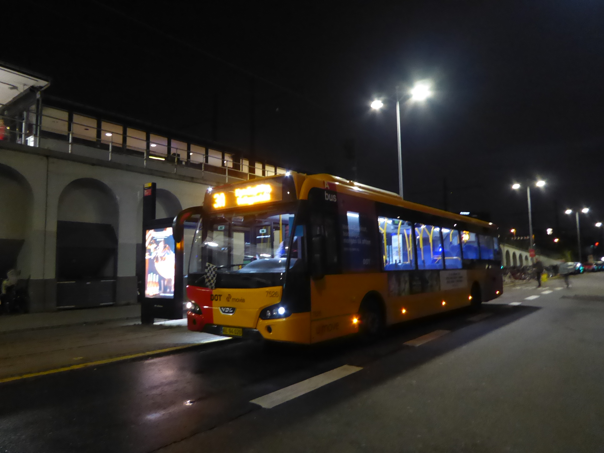 The very last Movia bus line 3A from Nordhavn Station to Valbyparken in Copenhagen before departure from Nordhavn Station. The rally flag was placed there by a photographer and removed before departure. The next day line 3A was closed.